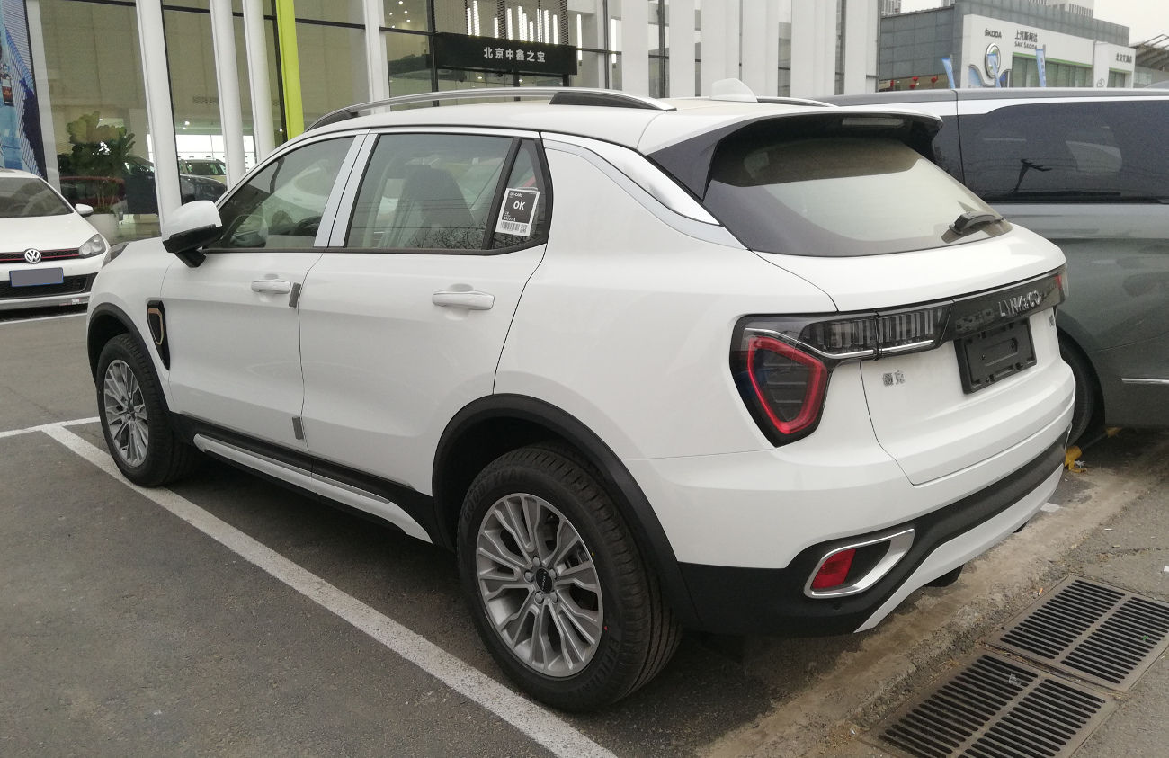 Lynk & Co 01 photographed in Beijing, China.